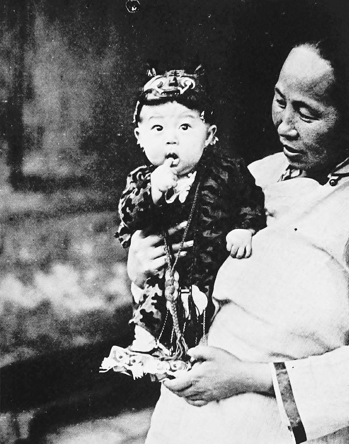 Photo from Peking, a social survey conducted under the auspices of the Princeton university center in China and the Peking Young men's Christian association (1921)